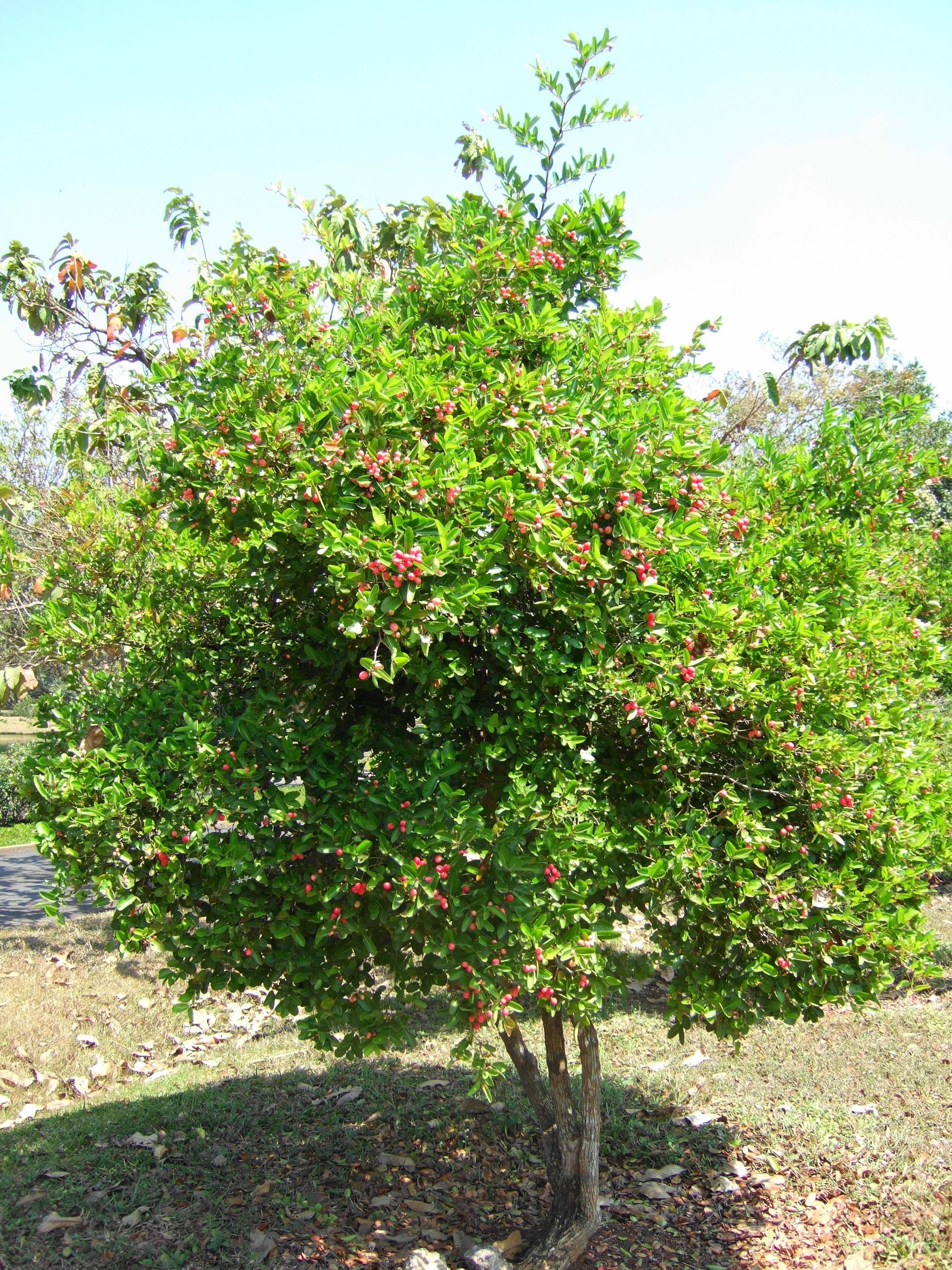 Karonda, Carissa carandas L., Taman Wisata Mekar Sari, Cileungsi, Bogor, West Java, Indonesia.